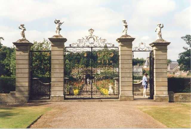 Gates to the Walled garden at Mellerstain House